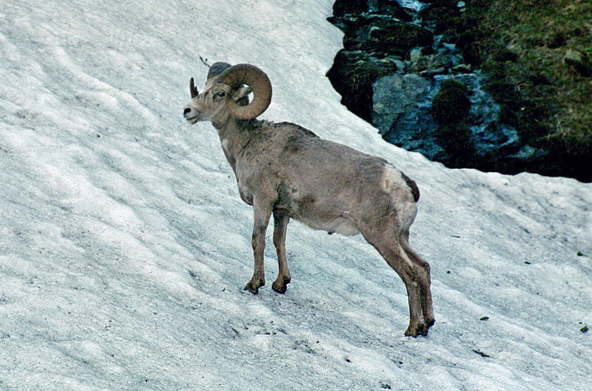 Bighorn Sheep, full curl ram in Glacier National Park, Montana